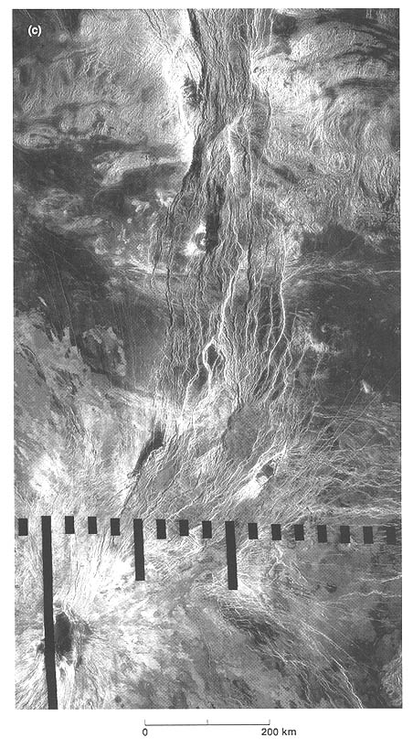 Extensional troughs and graben: (c) rift valley Devana Chasma, 1050 km long and 80 to 240 km wide, in Beta Regio (28°N, 283°E). Illumination is from the left in each image.